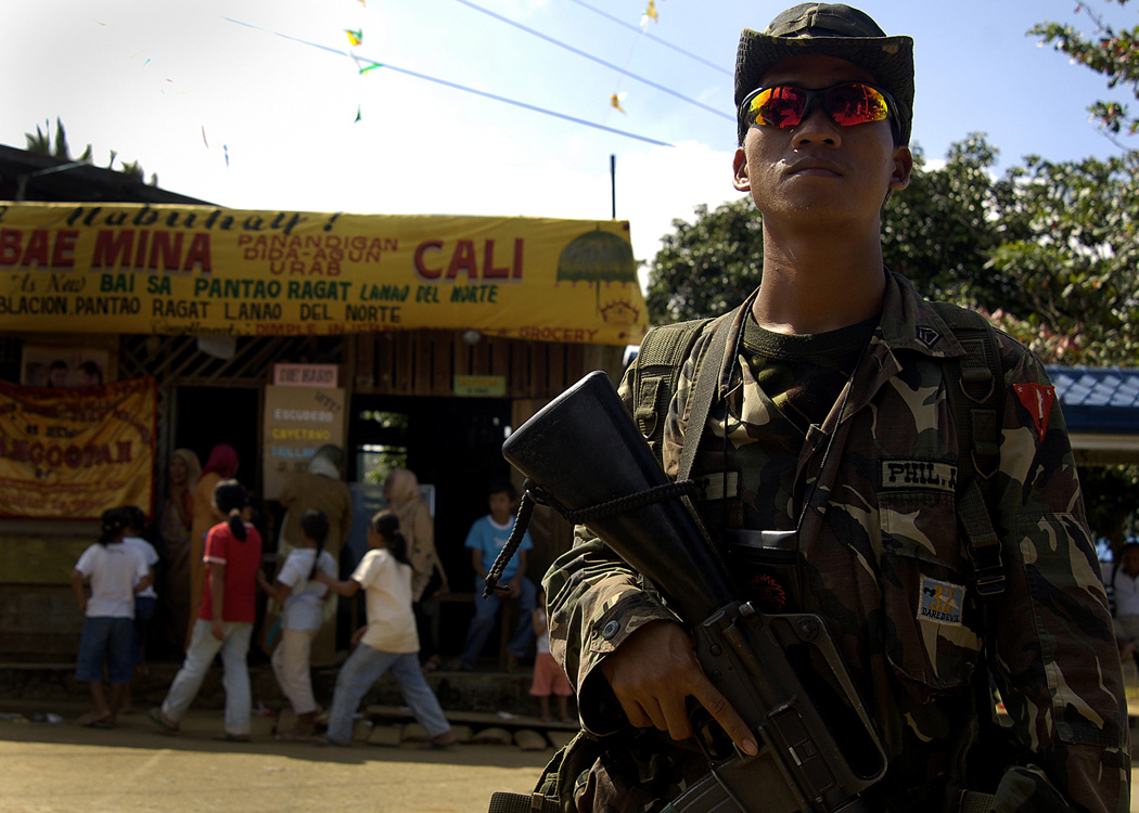 070222-N-8977L-485 .PANTAO RAGAT, Lanao Del Norte, Republic of the Philippines (Feb. 22, 2007) -- A Philippine Army soldier guards a path so U.S. Armed Forces can pass through the town safely during one of the Medical Civic Action Program (MEDCAP), a part of Exercise Balikatan 2007. Balikatan is a regularly scheduled exercise focusing on interoperability of forces and humanitarian/civic assistance operations. The experience gained in Balikatan 2007 compliments the Philippines security forces existing counter-terrorism programs.